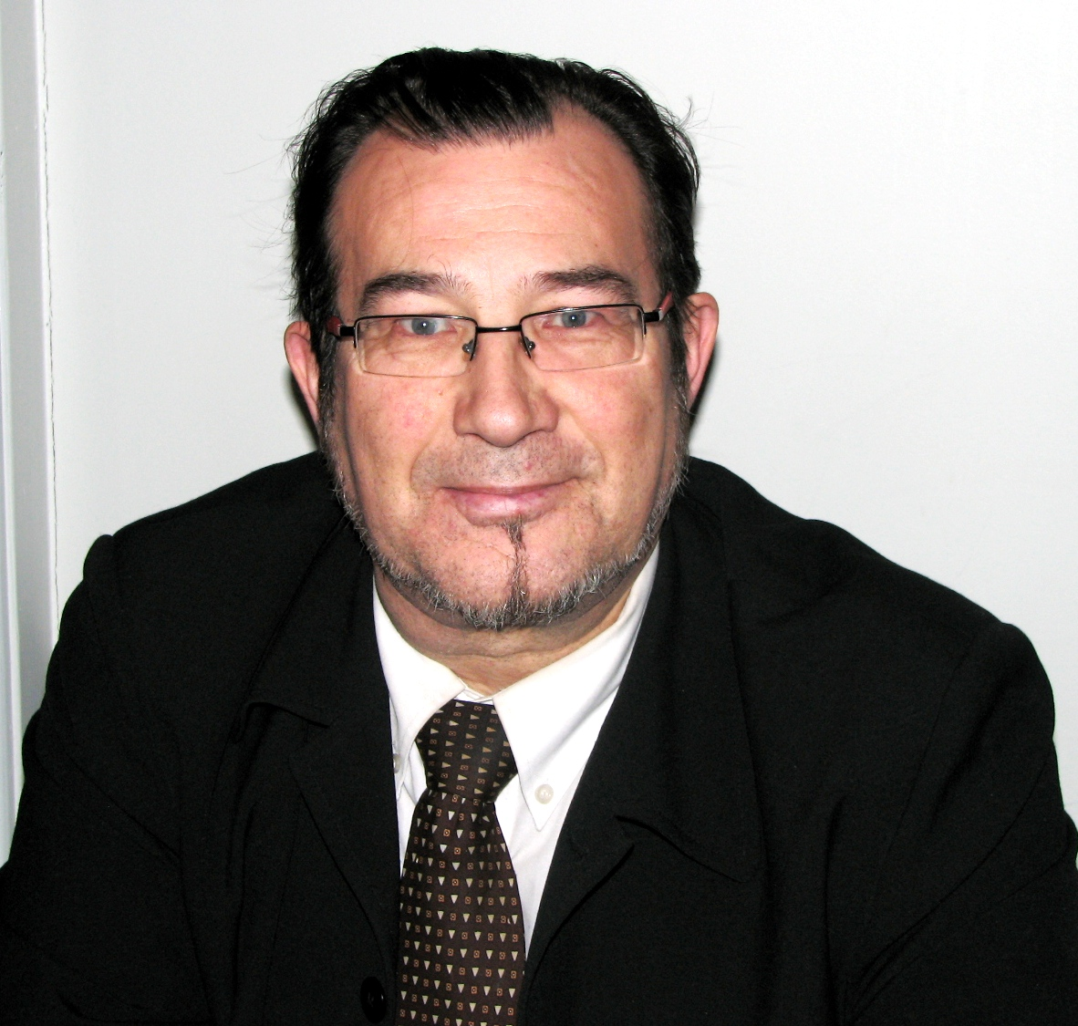 Üllar Luup is Estonian journalist